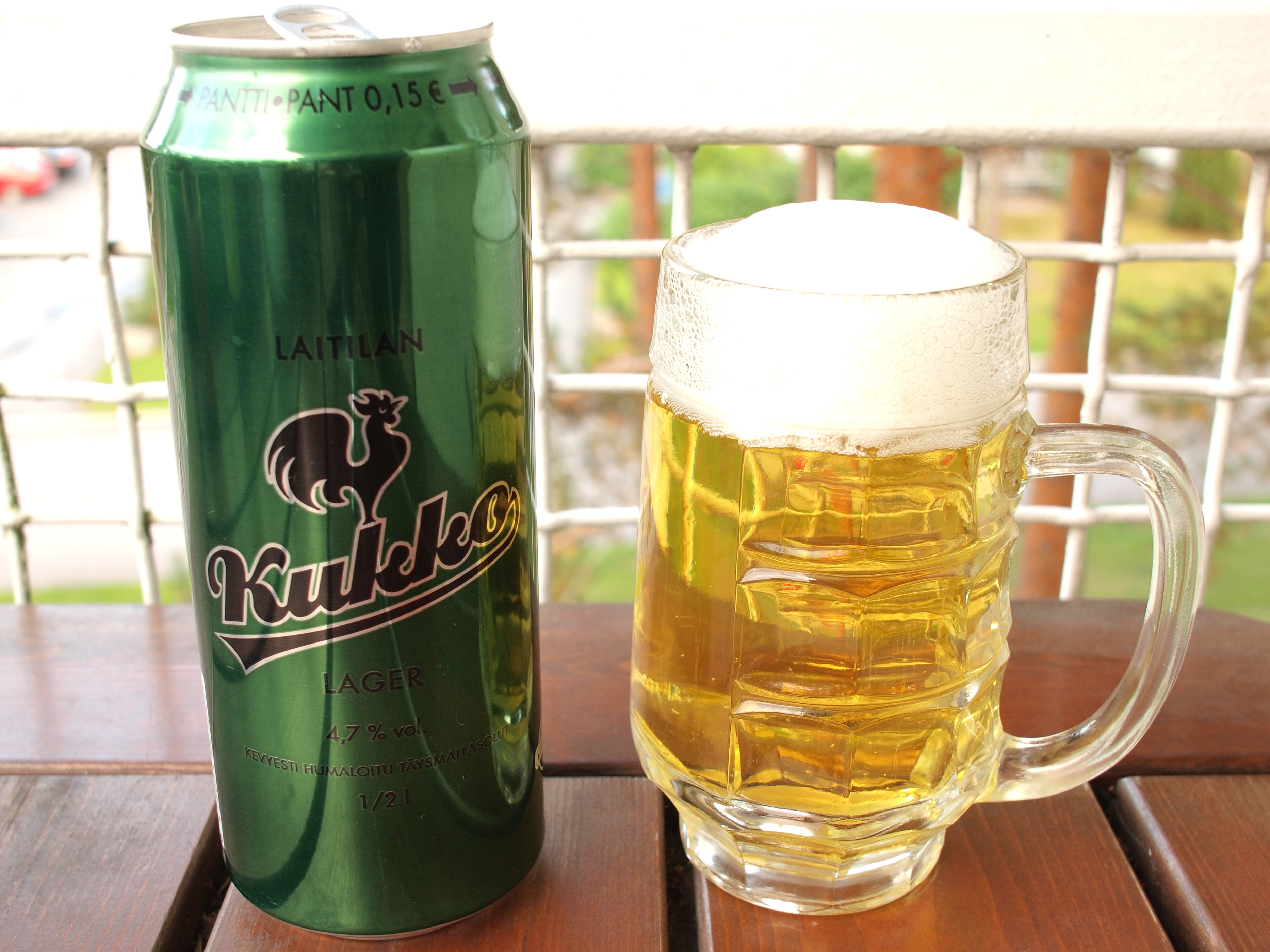 Kukko Lager beer by Laitilan Wirvoitusjuomatehdas in Laitila, Finland. EBU 22, EBC 5.